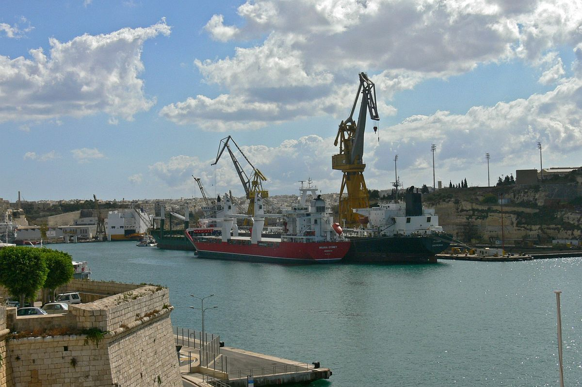 Docks in French Creek, between Raħal Ġdid (Paola) and L-Isla (Senglea), Malta